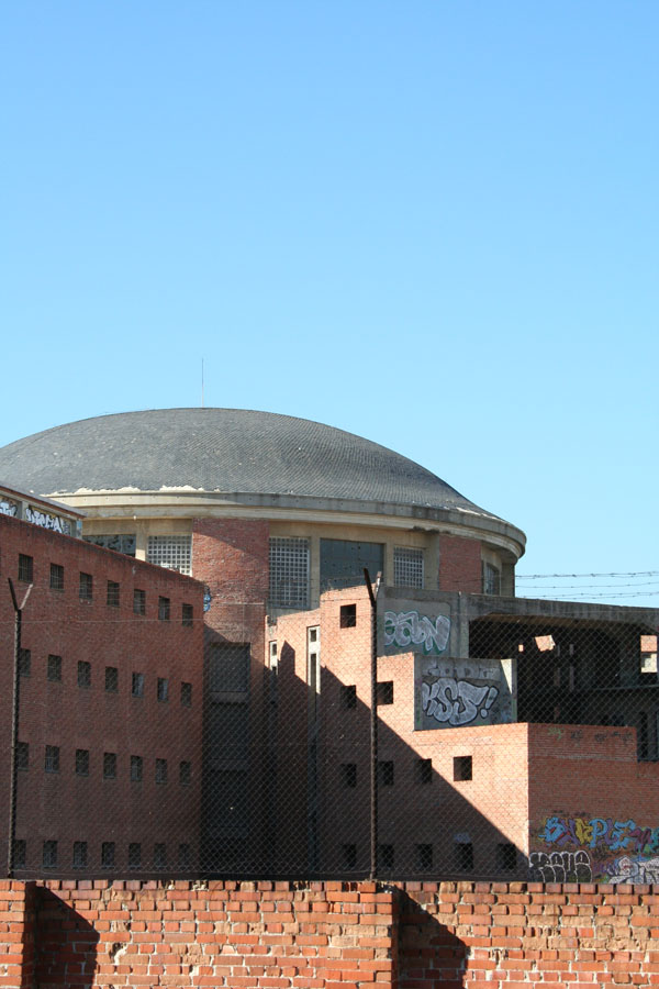 The panopticon of Carabanchel prison, seen from one of the aisles